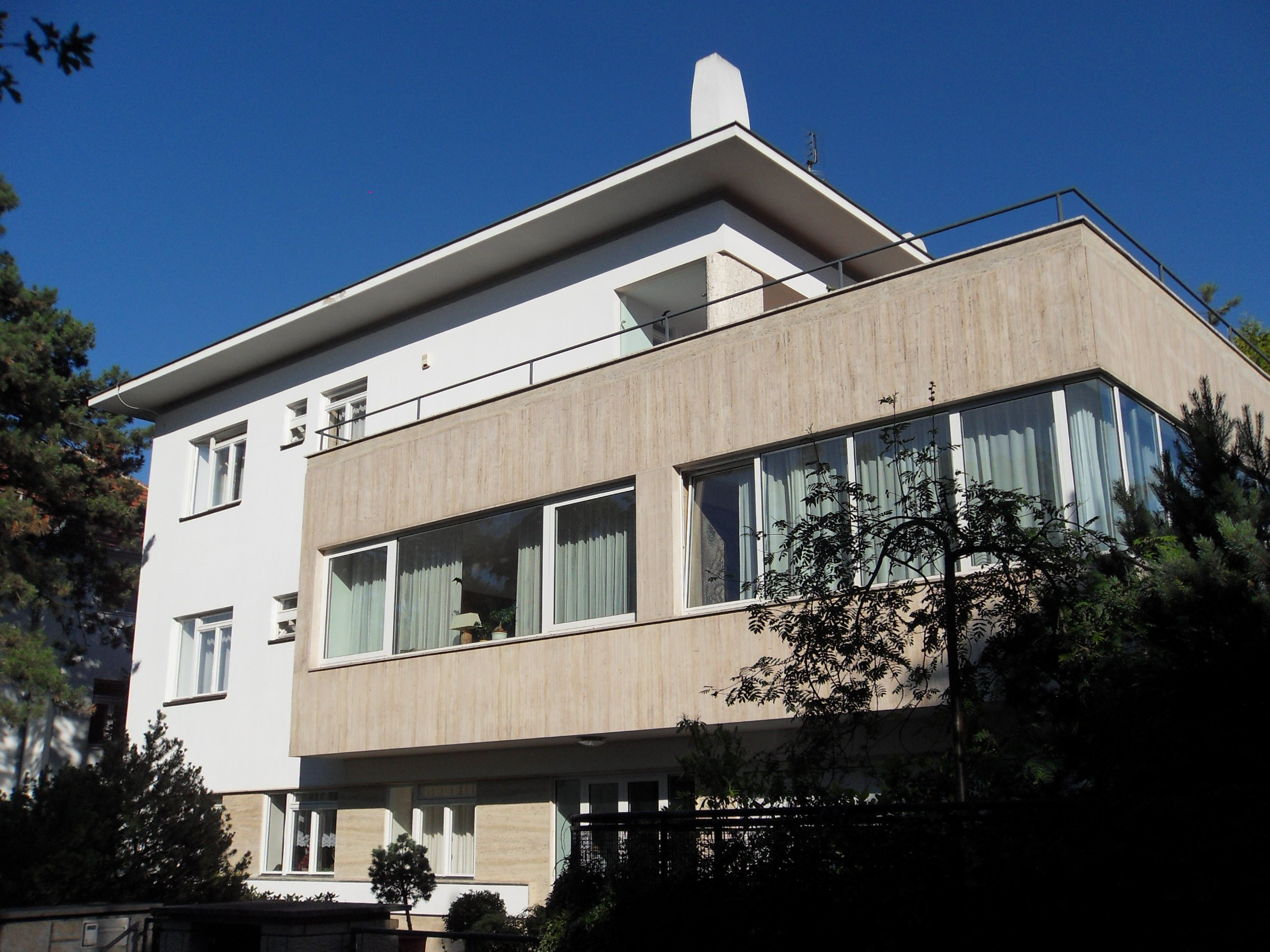 Villa of Václav Dvořák, Brno, Czech Republic